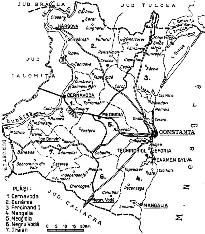 Map of Constanța interwar county, Kingdom of Romania (1938).